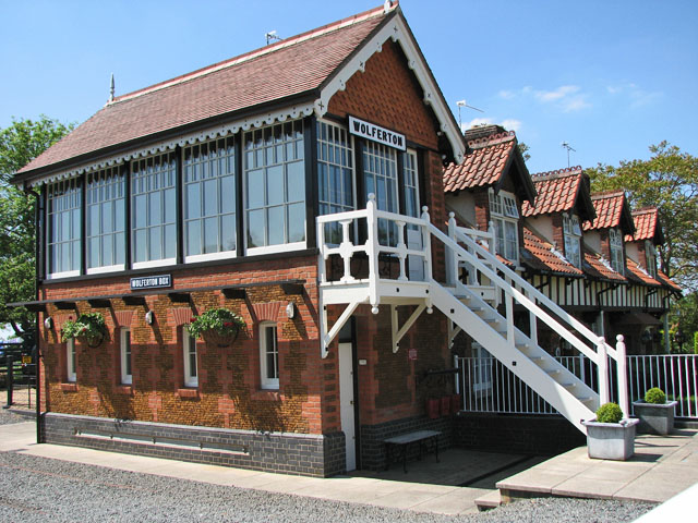 The Royal Station in Wolferton - signalbox